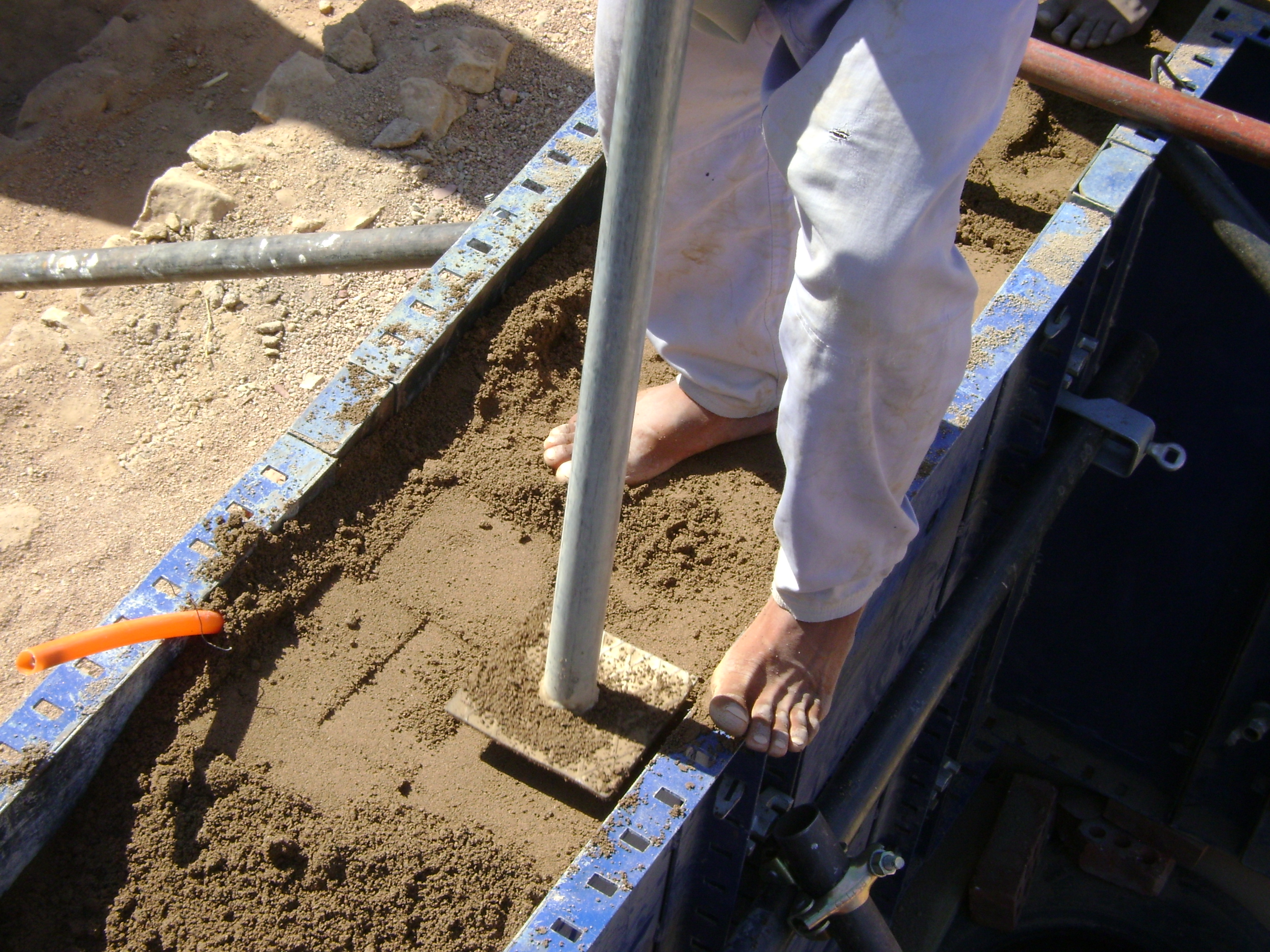 Picture showing manual ramming of earth in metallic shutters. Photo taken in Sinai, Egypt.